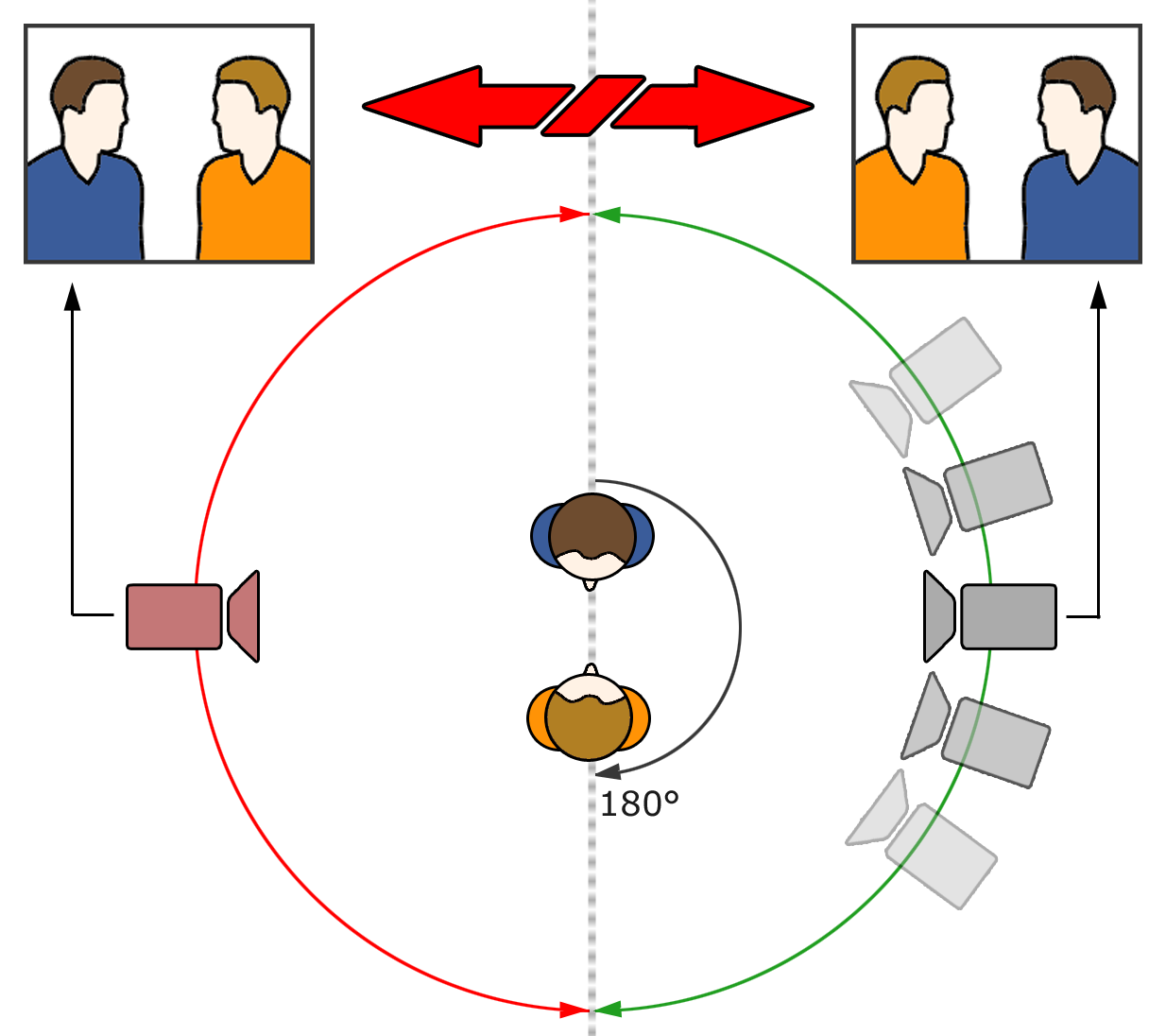 Illustration painted by grm_wnr for en:180 degree rule.